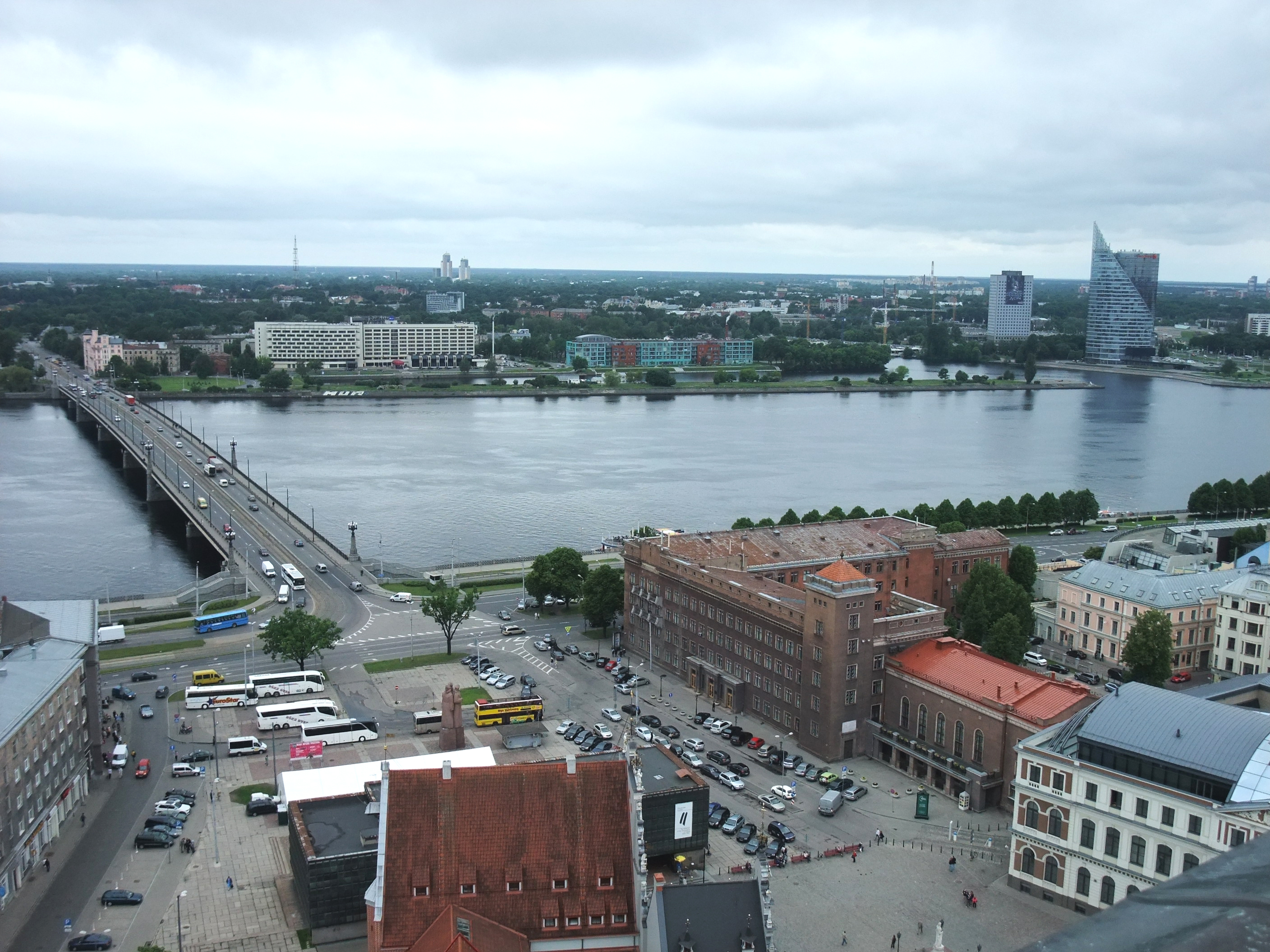 View from St. Peter's Church at Riga, Latvia